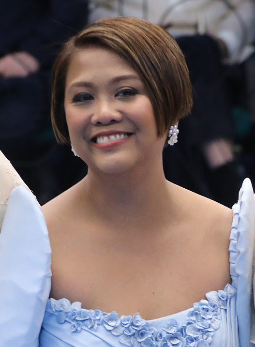 Lady Senators from (L-R) Risa Hontiveros,Binay,Legarda,Villar,and Poe pose in photo during the opening of the third regular session of the 17th Congress of the Senate in Pasay City on Monday (July 23, 2018)